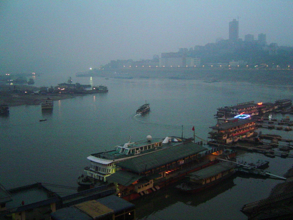 Yangtze River as seen from Chongqing, China. Photo by User:Calton